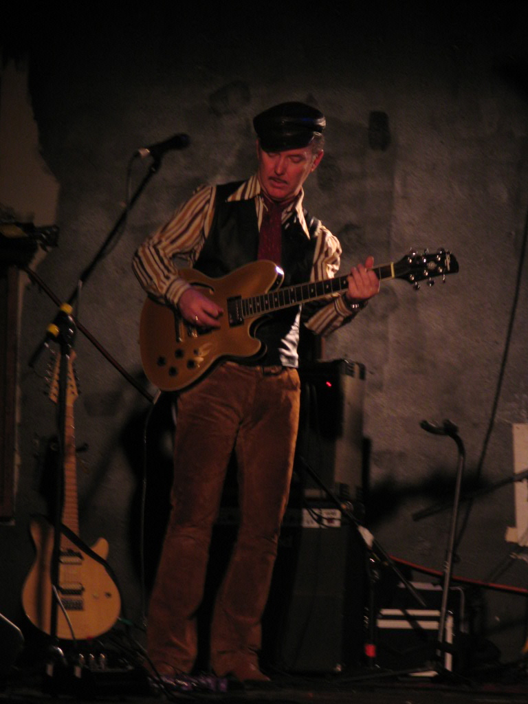 dave graney playing guitar onstage in westernport victoria